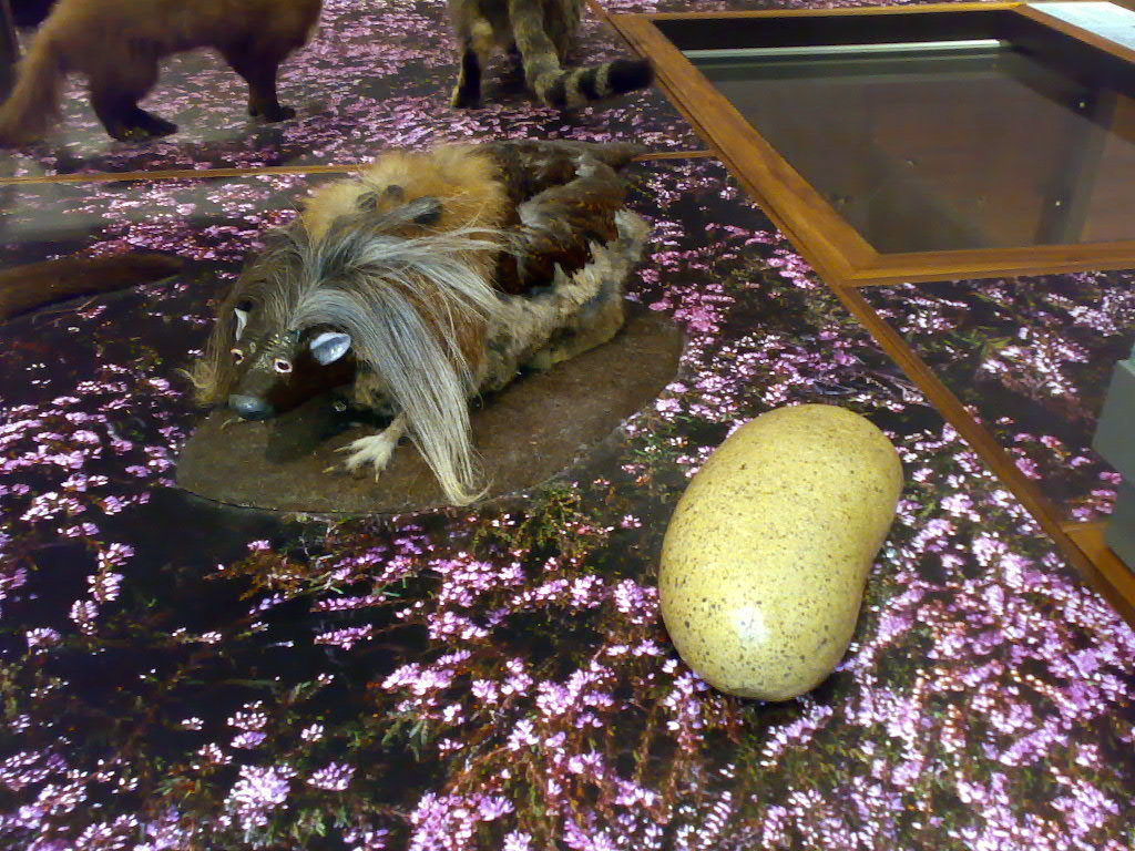 A Haggis specimen, Haggis scoticus, at the Glasgow Kelvingrove museum, next to a prepared specimen